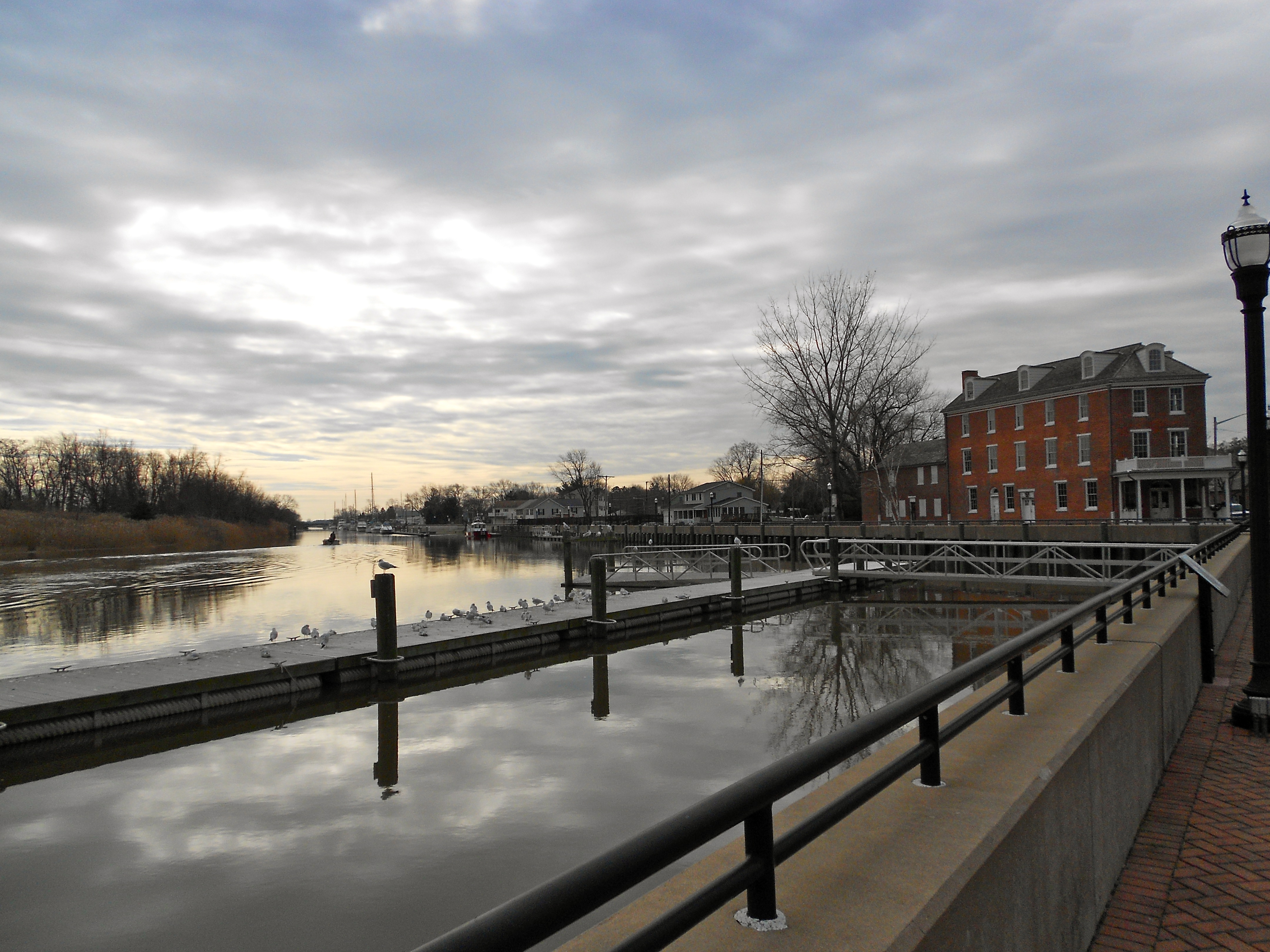 Eastern lock of the Chesapeake and Delaware Canal (now out of use). The Van Amringe house in the background. Listed as the Eastern Lock of the Chesapeake and Delaware Canal on the NRHP since April 21, 1975, in Battery Park, Delaware City, Delaware.